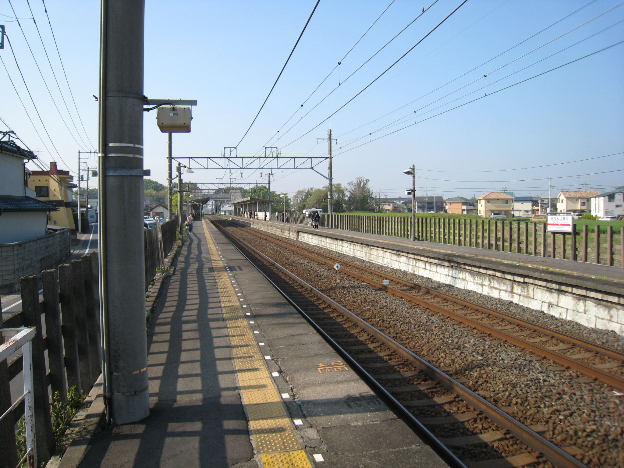 Platforms of Morinjimae Station in Tatebayashi, Gunma Prefecture, Japan